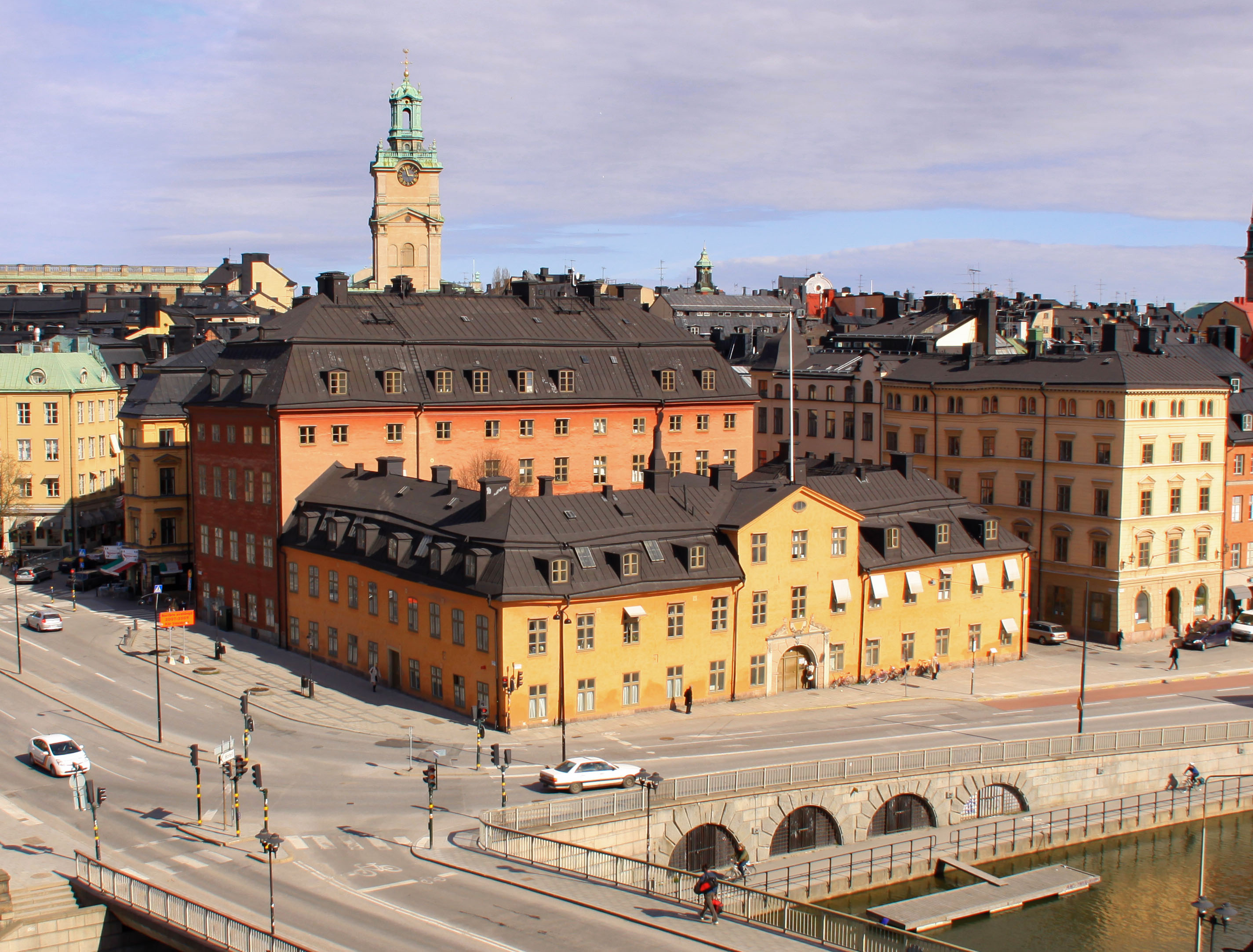 Ryning palace in Gamla stan, in Stockholm, Sweden. Northern and western fasades.